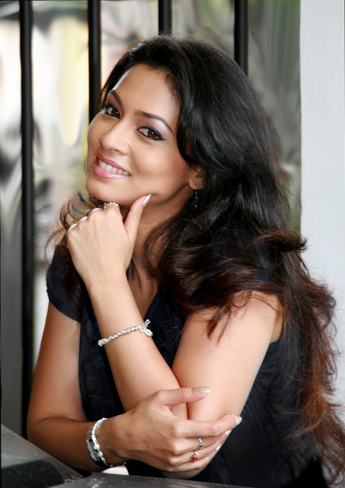 Picture of the Beautiful Indian and Srilankan Actress Pooja Gauthami Umashankar